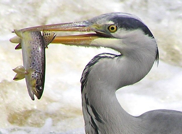 Catching fish on the Camowen River, Omagh. I pictured this heron and trout with the camera along the Camowen River a couple of years ago. He didn't take long to devour his prey. I had forgotten the date, but the EXIF information revealed it on screen. Lets hope that he doesn't get avian flu.